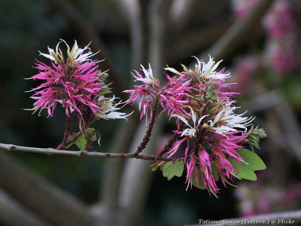 Cultivar "Purpurea" Shrub or small tree. Brisbane Botanic Gardens.(Mt. Coot-tha)